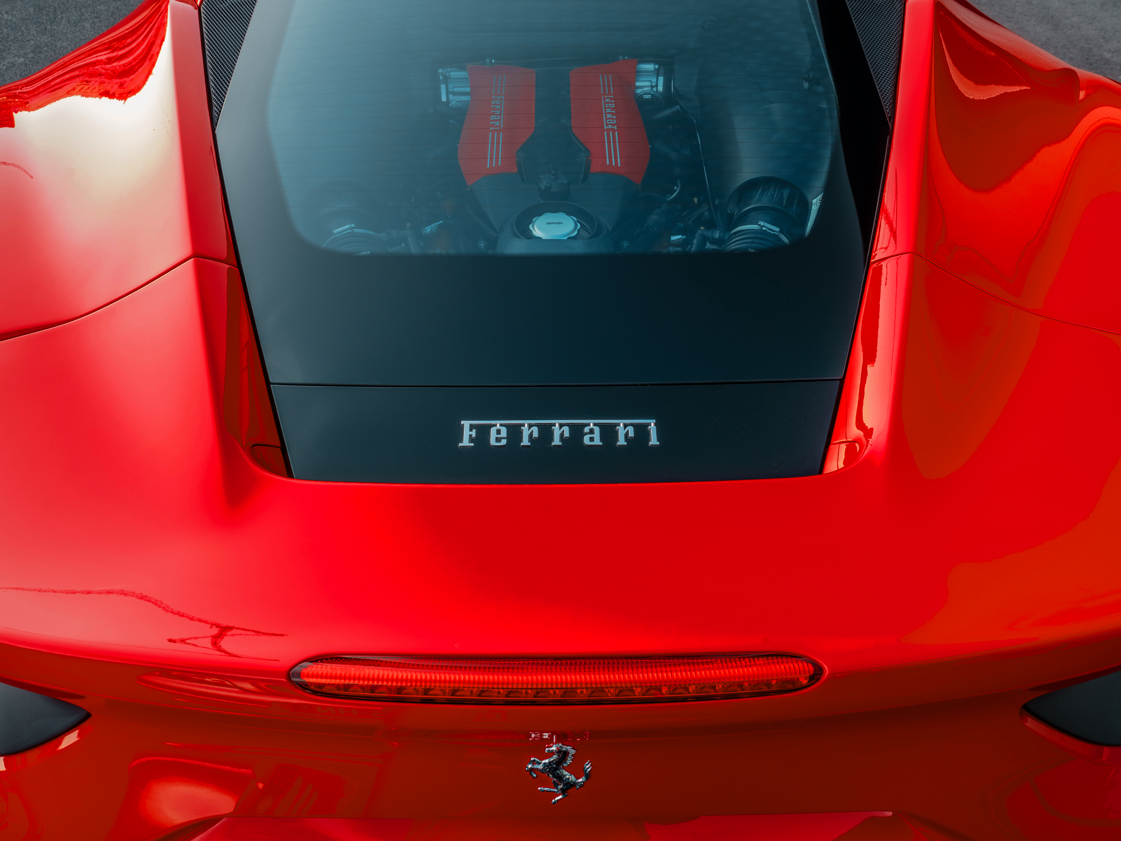 Ferrari 488 Rear View